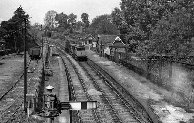 Byfield Station (remains). View westward, towards Towcester and Stratford-on-Avon; ex-Stratford-on-Avon & Midland Junction line, Broom Junction - Straatford-on-Avon - Towcester - Blisworth/Ravenstone Wood Junction, also Byfield - Woodford Halse (Woodford & Hinton, ex-Great Central). Byfield station had been closed to passengers on 7/4/52 when the Blisworth - Stratford-on-Avon service ceased; until 5/48 a service had run Byfield - Woodford Halse. Freight traffic east of Towcester ceased on 22/6/58, but goods continued Woodford Halse - Byfield until 4/5/64, as evidenced by the engine with brake-vans in this 1963 picture.